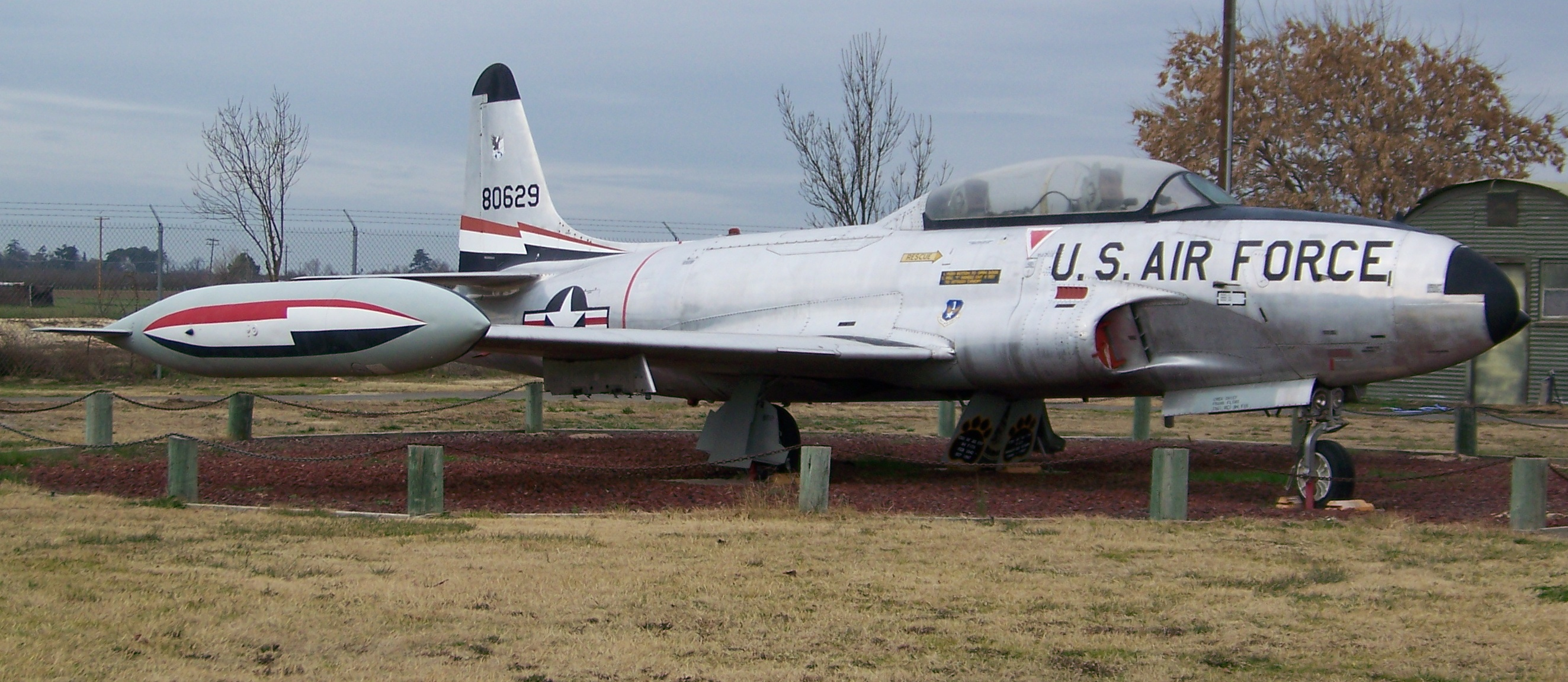 A Lockheed T-33 Shooting Star on display at the Castle Air Museum in Atwater, California.